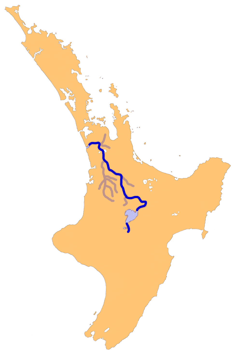 Location map of Waikato River, North Island, New Zealand